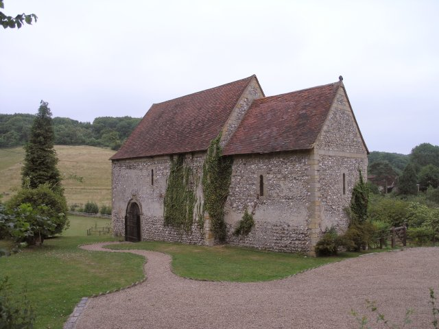 Dowde (or Dode) Church This norman church was originally twinned with the church in Paddlesworth (TQ6862) and served the village of Dode. Today, the church is left virtually isolated down a no-through road, with only a few local farms to keep it company. The village of Dowde no longer exists as it was wiped out by the Black Death in the 14th century. It was deconsecrated in 1387 but unlike its sister in Paddlesworth (19933), was never reconsecrated. Today, the building is privately owned and is used for various functions and is often used for pagan gatherings such as solstices.